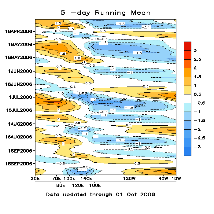 5-day running mean of Madden-Julian oscillation